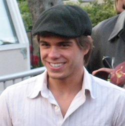 Picture of Matthew Lawrence from the Pirates of the Caribbean: At World's End premiere at Disneyland